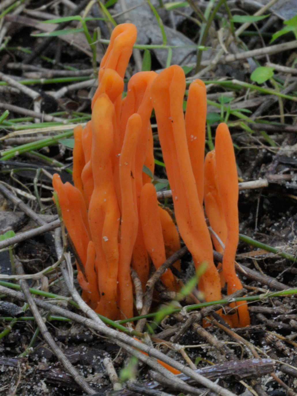 Fruitbodies of the coral fungus Clavulinopsis sulcata. Photographed in Urunga Coastal Reserve, New South Wales, Australia.